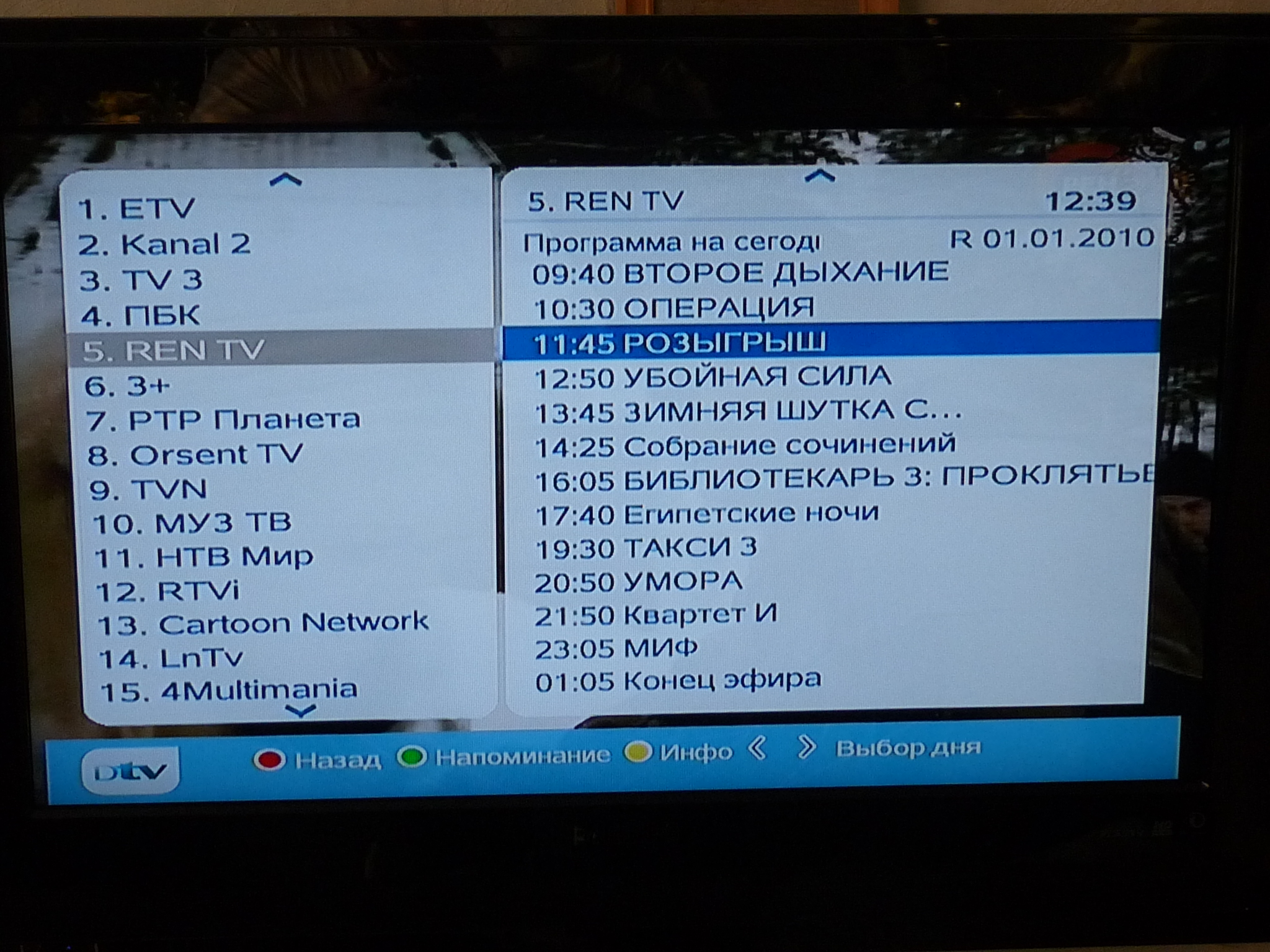 EPG screen of Elion IPTV using Russian interface langauge